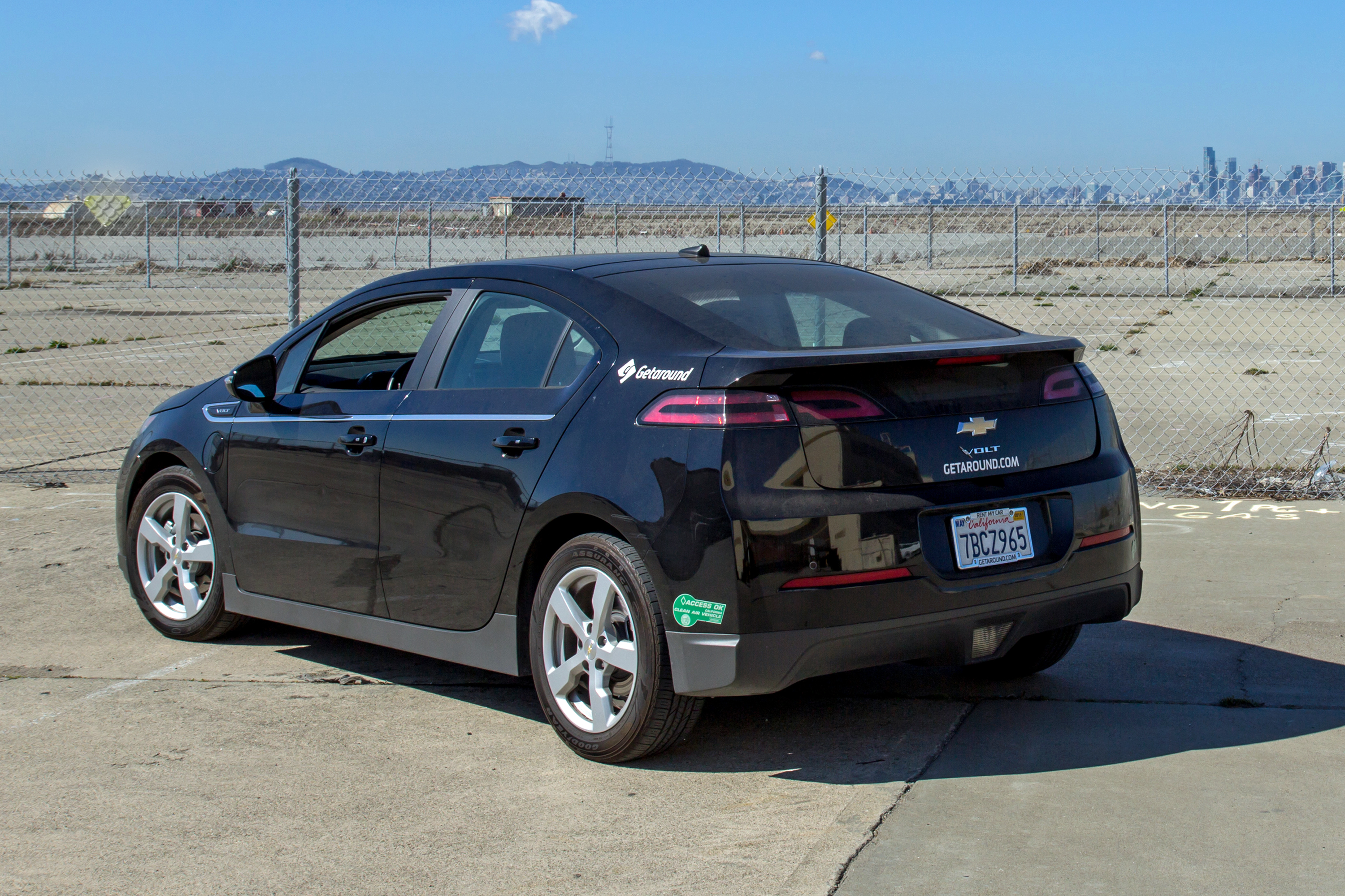 First generation Chevrolet Volt at the U.S. Navy Naval Air Station in Alameda, California. San Francisco in the background. California's green sticker for granting plug-in hybrids access to HOV lanes is located in the left side of the rear bumper.